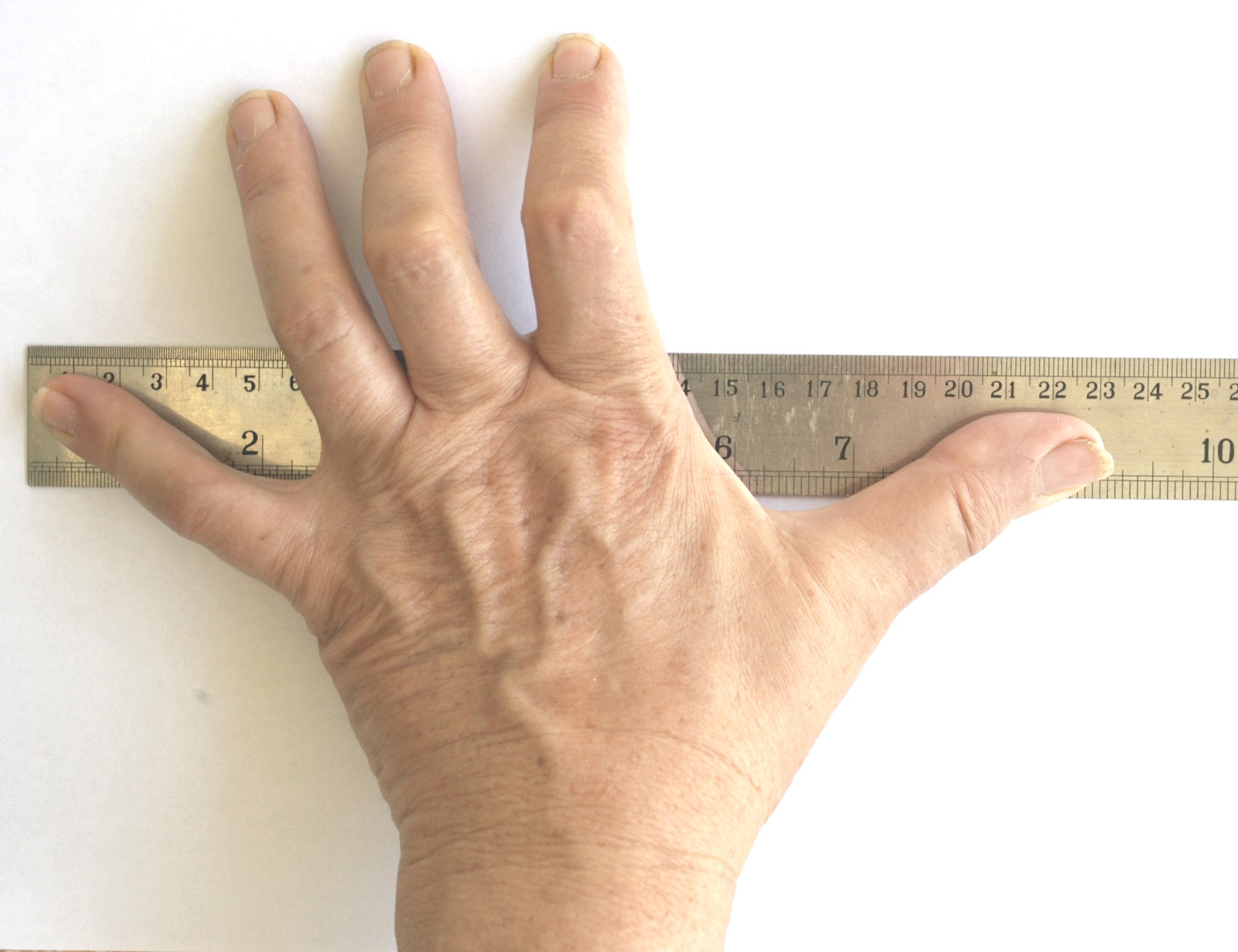 span about 22 cm